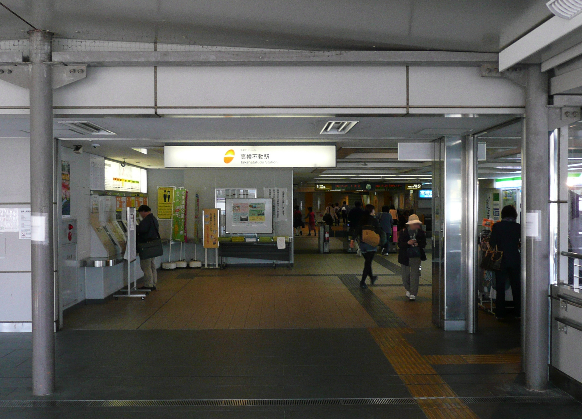 The entrance to Takahatafudō Station (Tama Monorail)